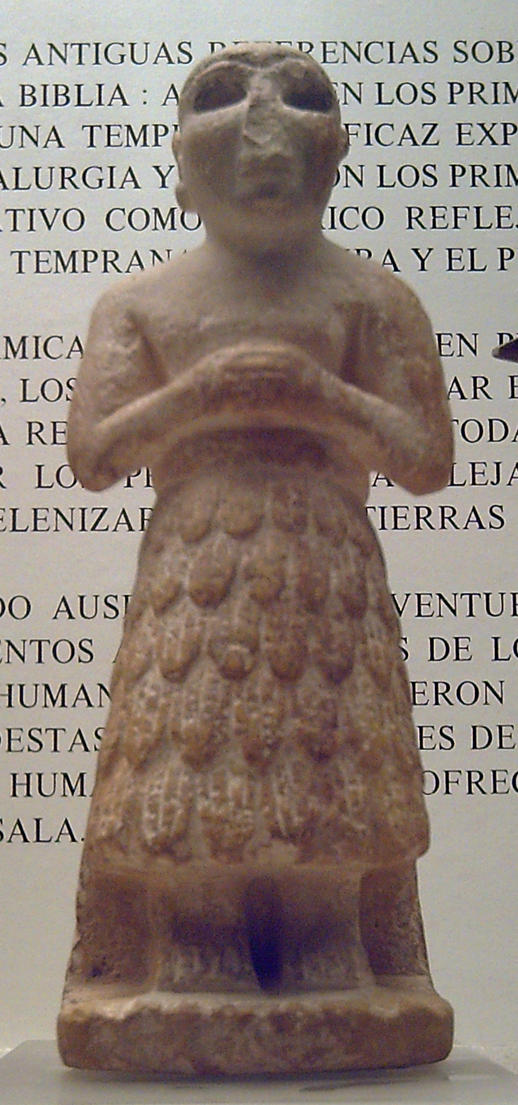 Statuette of a Sumerian prayer from the Early Dynastic Period III.